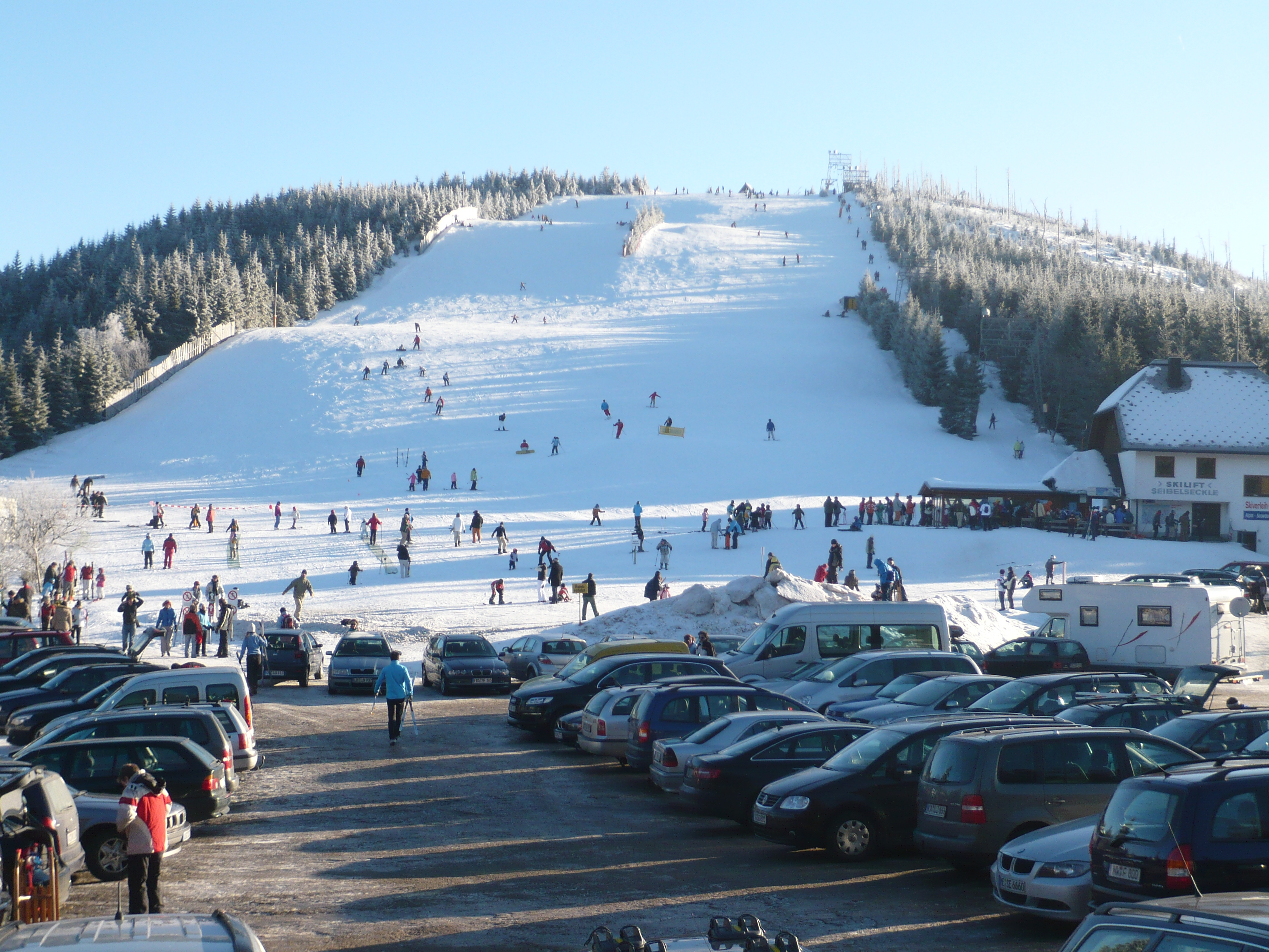 Seibelseckle ski slope, Northern Black Forest, Germany